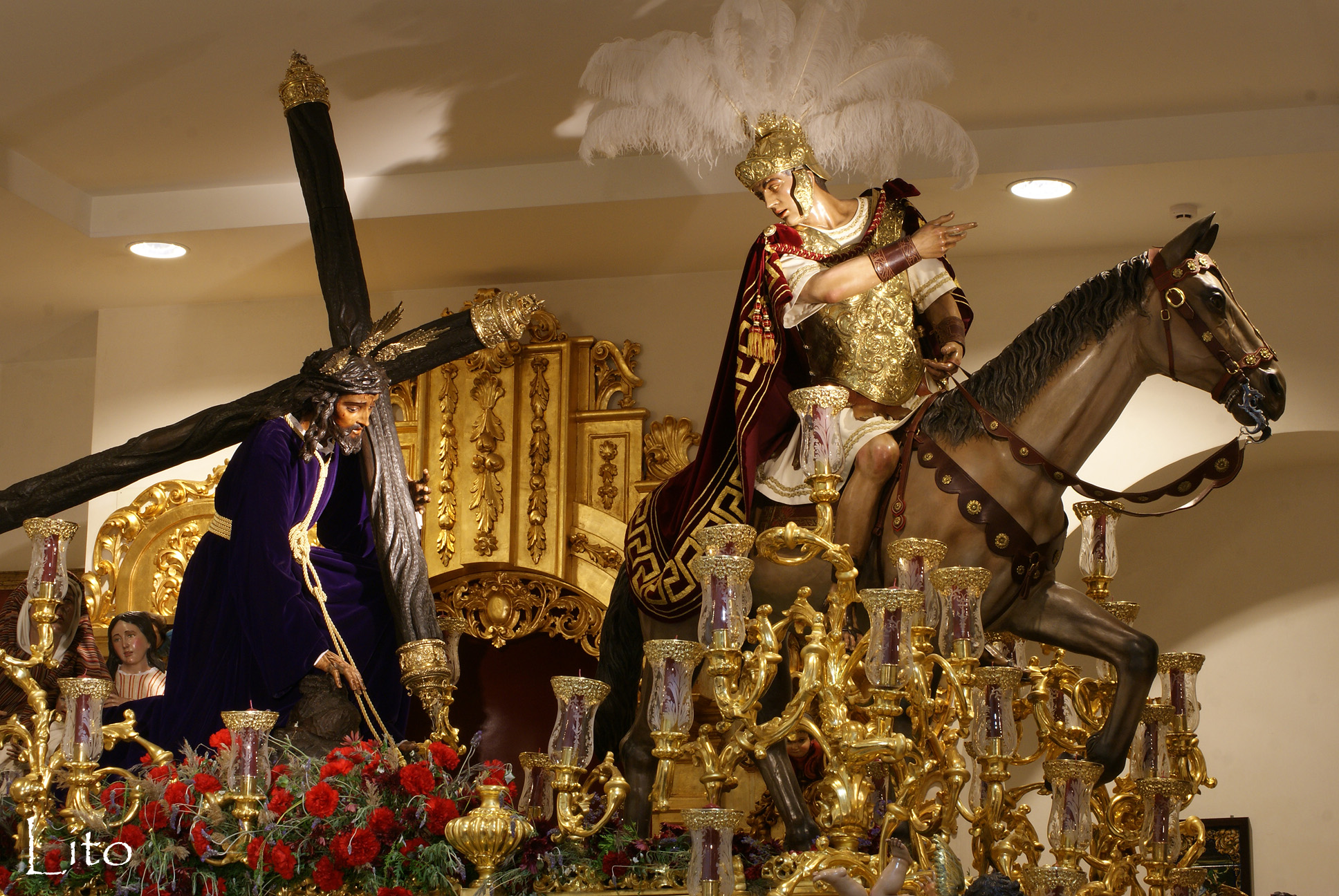 Misterio de las Tres Caídas de Triana